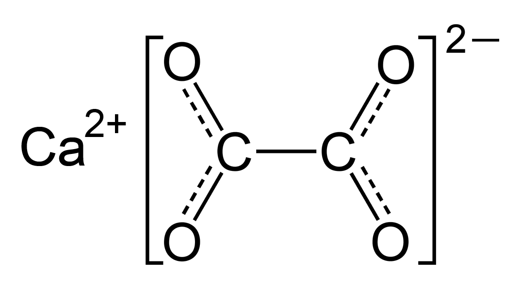 Calcium oxalate, with resonance structures of the oxalate ion shown by dashed lines on C-O bonds.